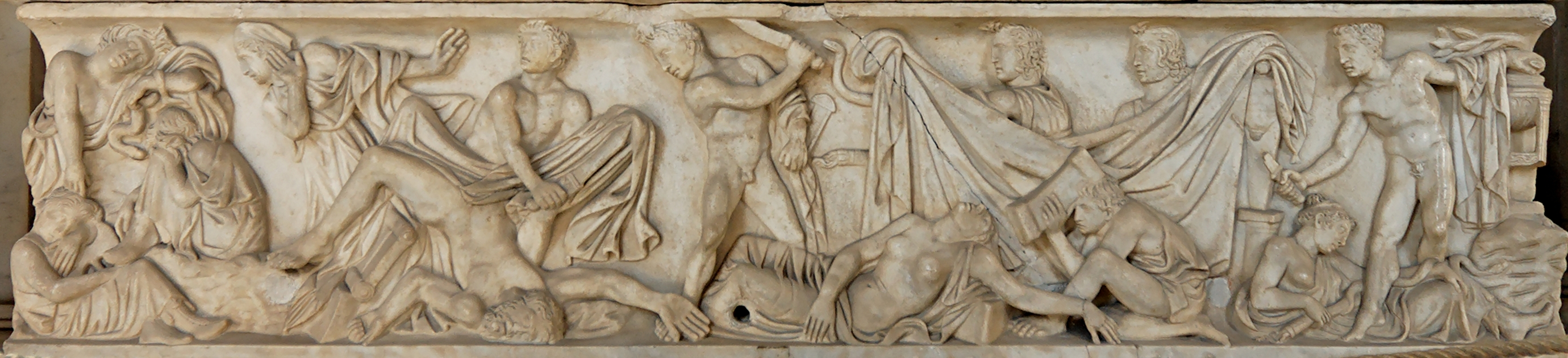 Scenes from the myth of Orestes. Front panel from a Roman sarcophagus, 160 CE.